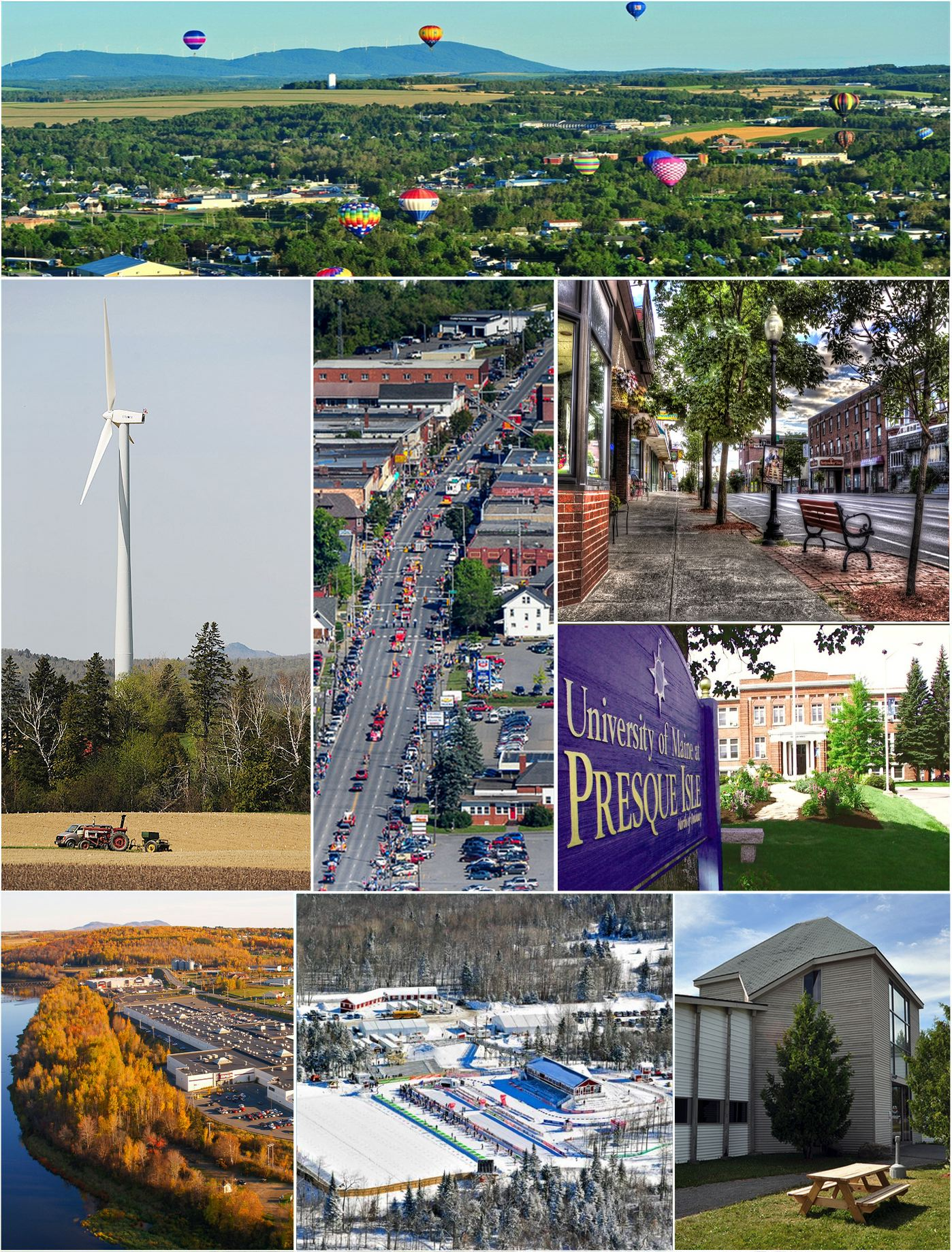 This is a montage of different iconic locations throughout the city of Presque Isle Maine.